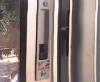 A window lock, photographed in Bangalore, India